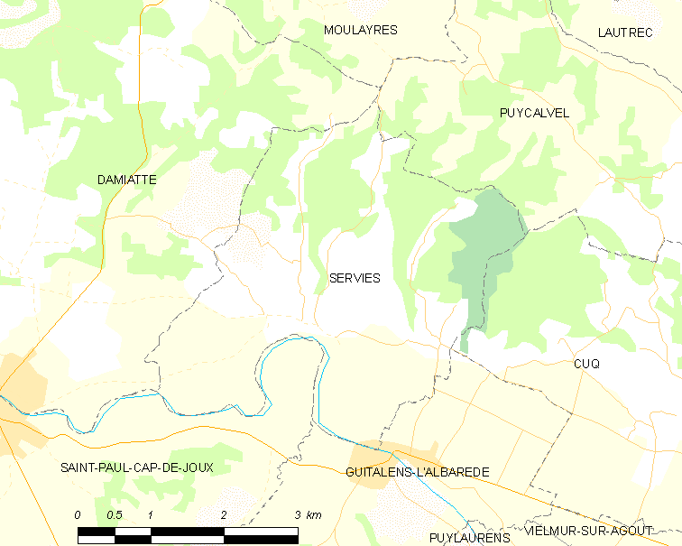 Map of French municipality Serviès